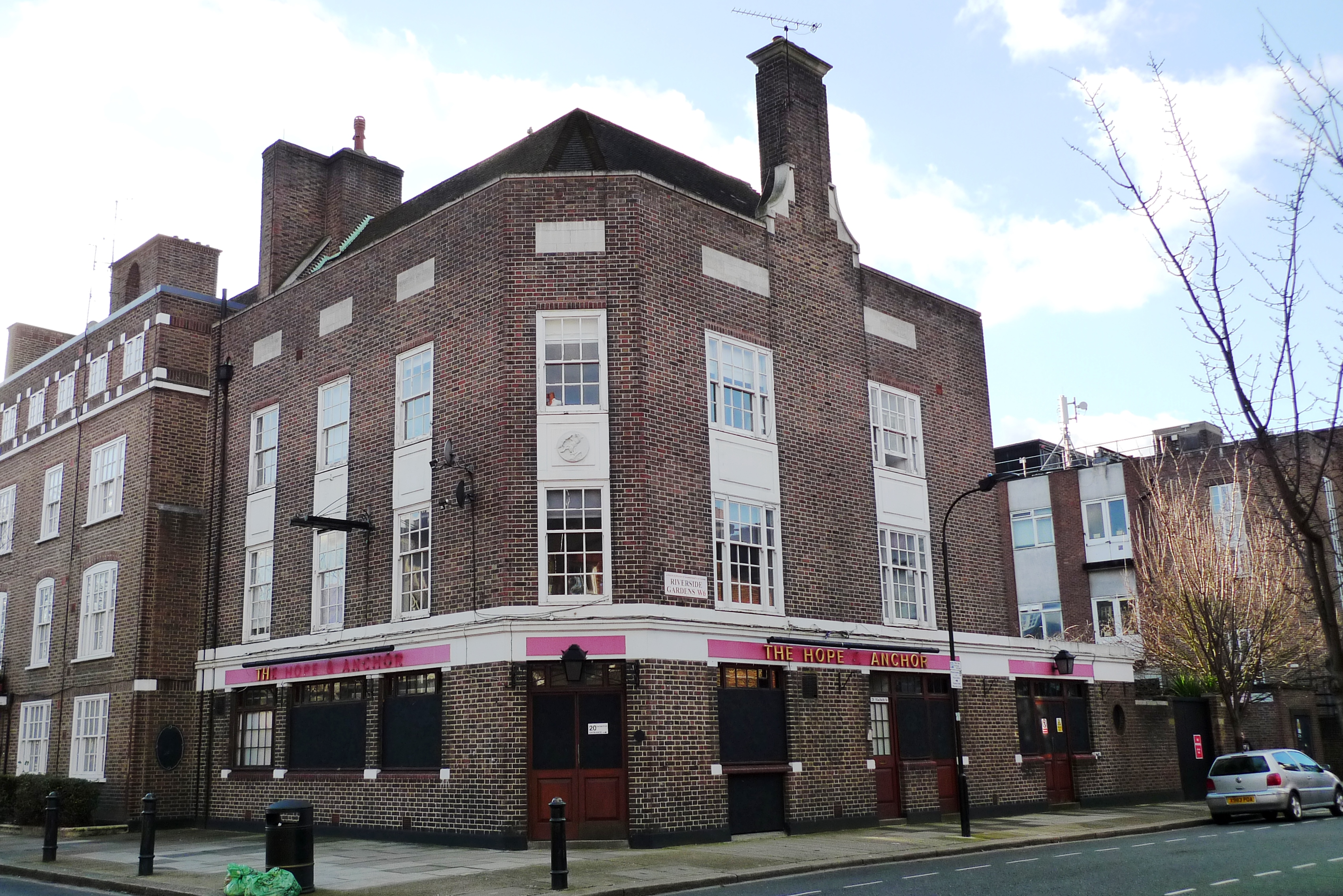 A closed and boarded pub on Hammersmith's back streets. Address: 20 Macbeth Street (formerly Waterloo Street). Owner: Enterprise Inns (former); Truman Hanbury Buxton (former). Links: London Pubology